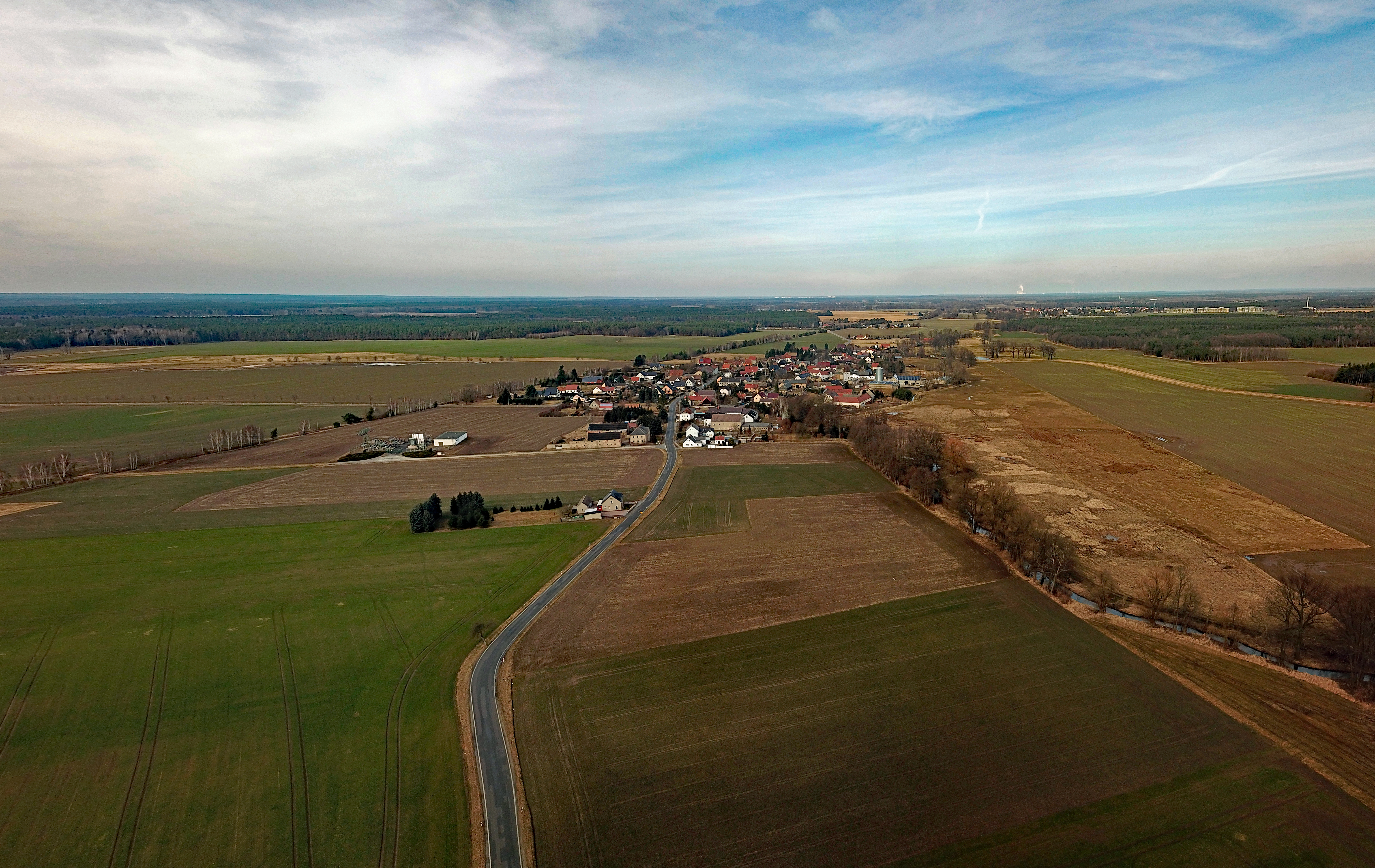 Zescha (Neschwitz, Saxony, Germany) Hornjoserbsce: Powětrowy wobraz Šešowa